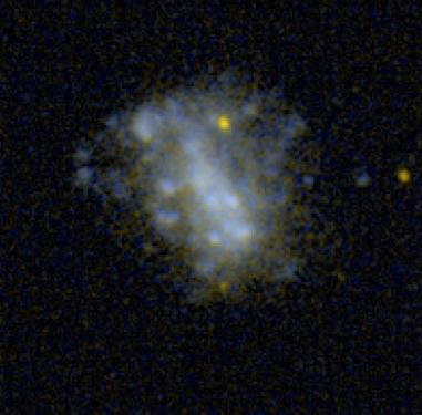 An ultraviolet image of NGC 1156 taken with GALEX. Credit: GALEX/NASA.